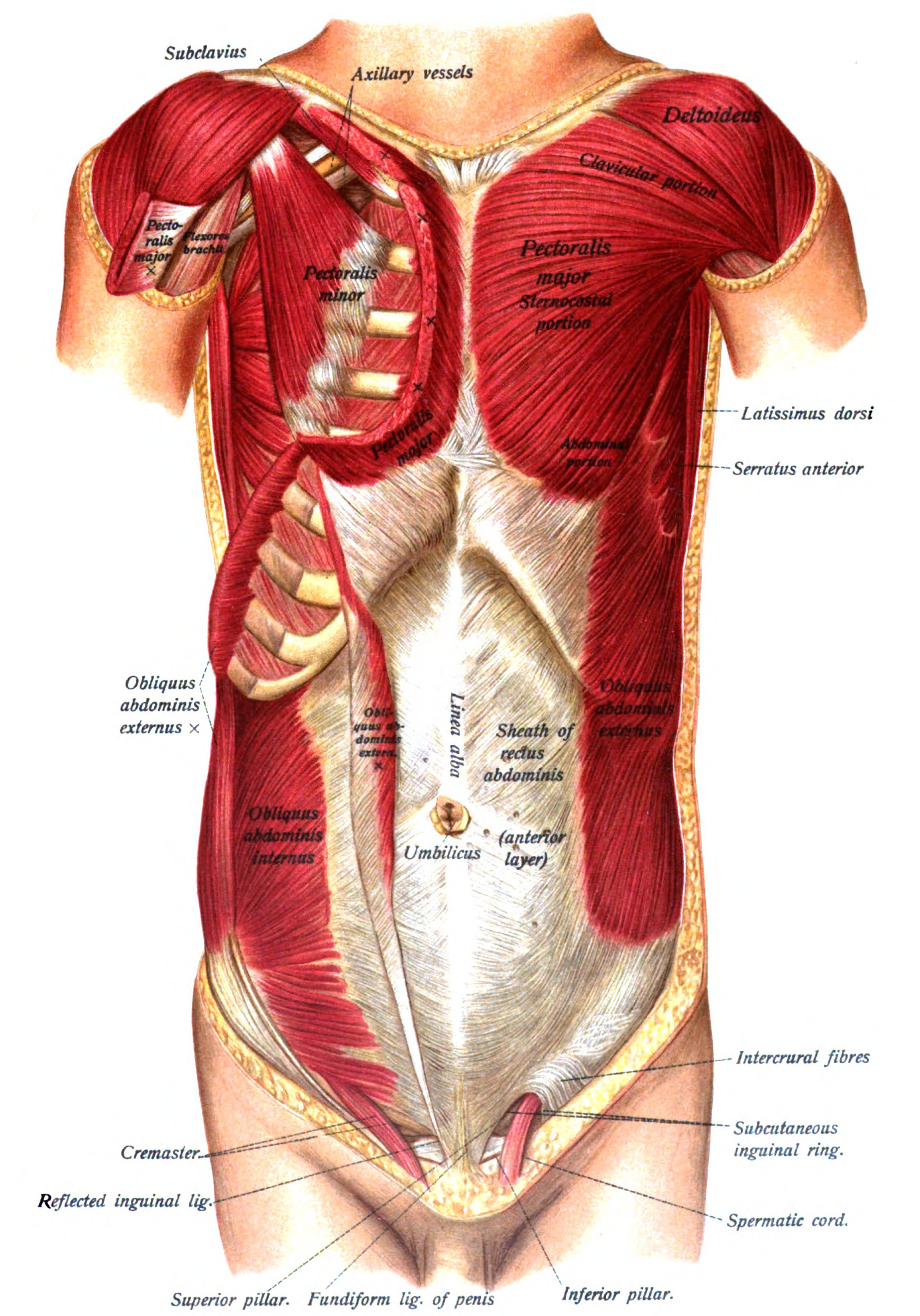 An anatomical illustration from the 1909 American edition of Sobotta's Atlas and Text-book of Human Anatomy with English terminology